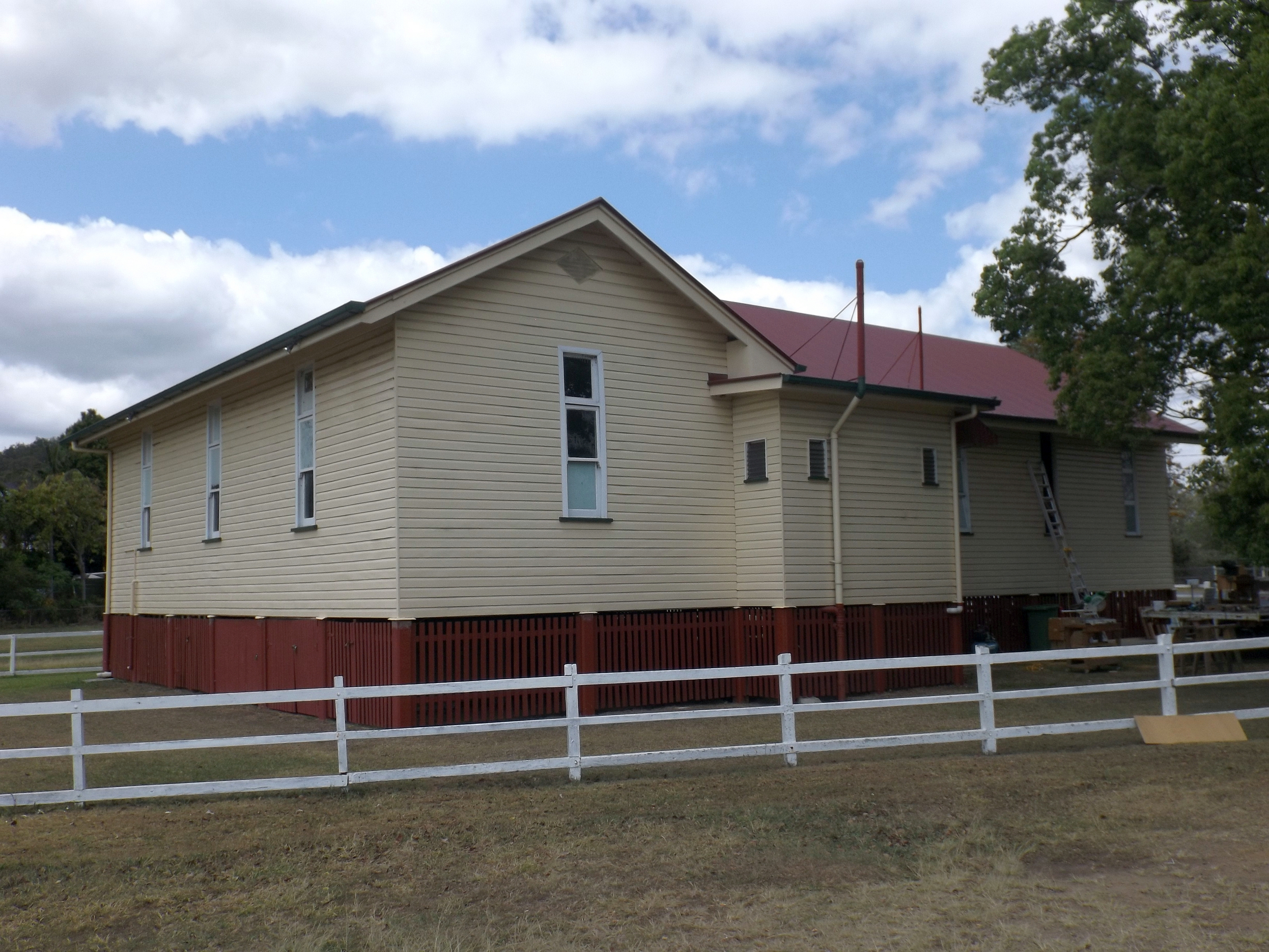 Photo of the rear of United Welsh Church at Blackstone, Ipswich, Queensland, Australia.